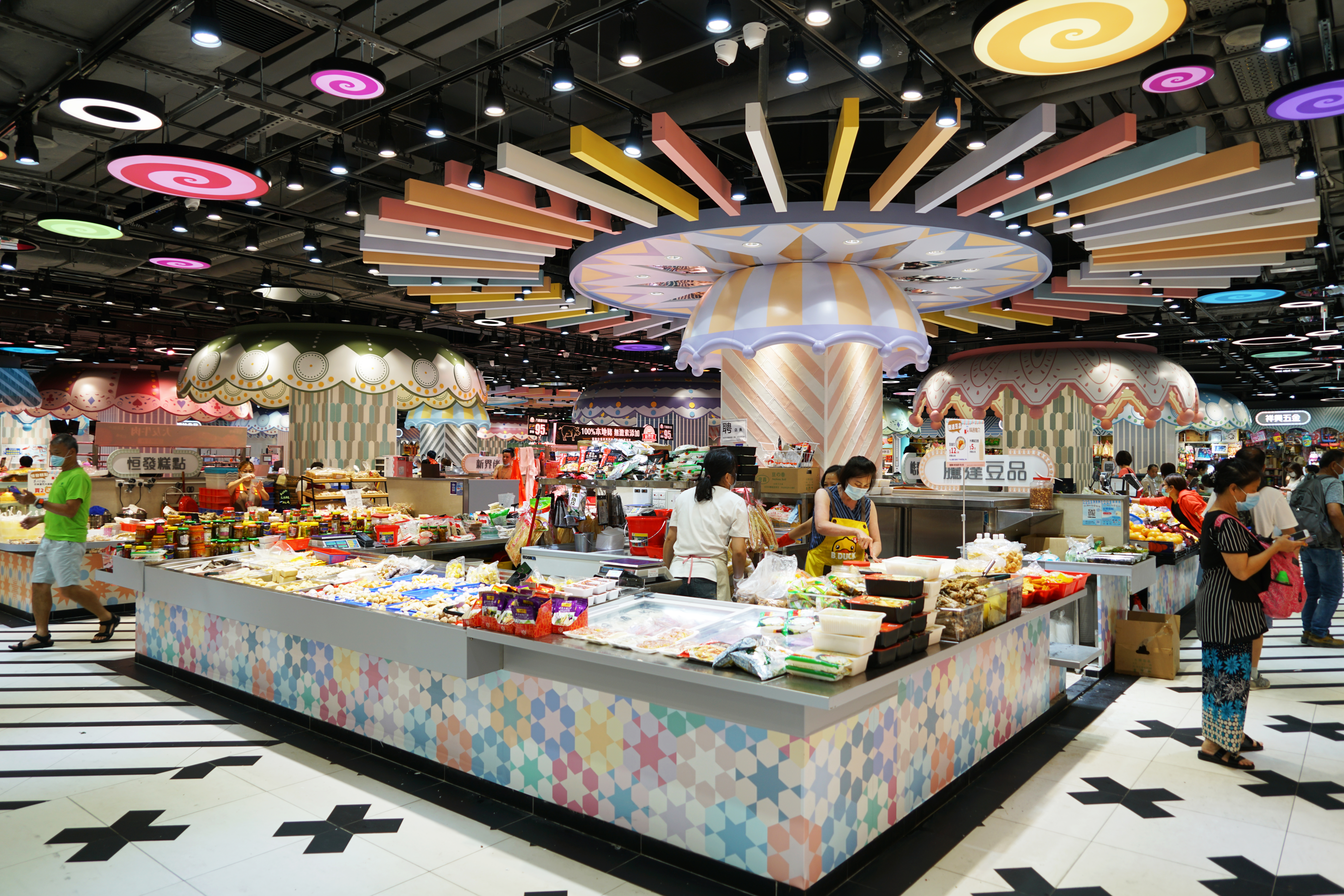 Yo Mart in Tuen Mun, Hong Kong.